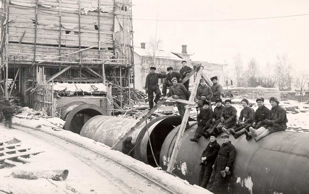 Patalankoski power plant under construction in Jämsänkoski, Finland